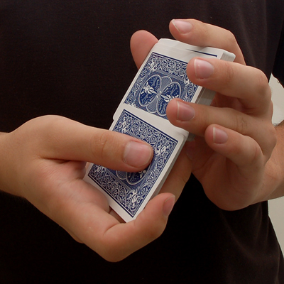 The third in a series of photos describing how to shuffle the cards using the overhand shuffle. I took it myself.